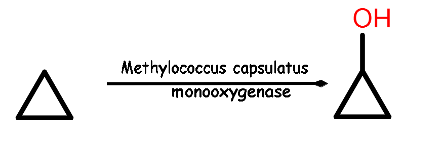 Cyclopropanol biological synthesis